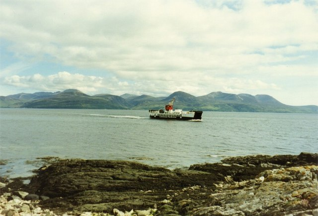 The Isle of Arran and the Arran ferry (MV Loch Striven or MV Loch Linnhe), from the pier at Claonaig, Kintyre.